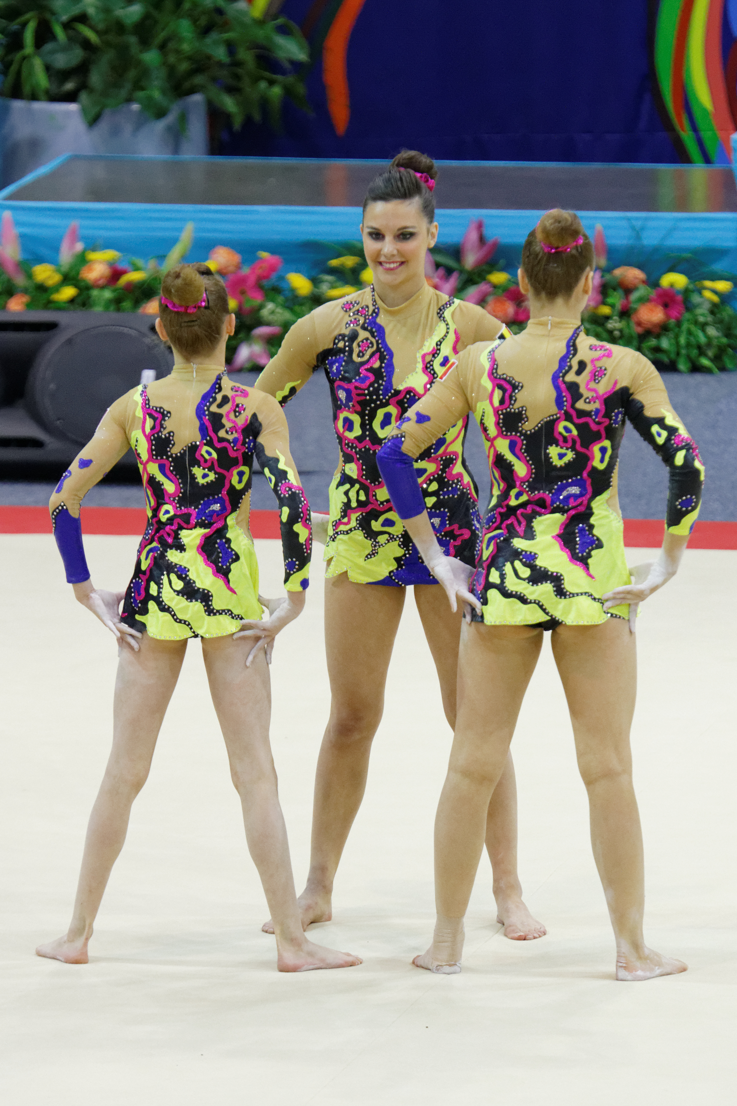 2014 Acrobatic Gymnastics World Championships, 10th-12 July, Levallois-Perret, France. Finals : women's group. Belgium.